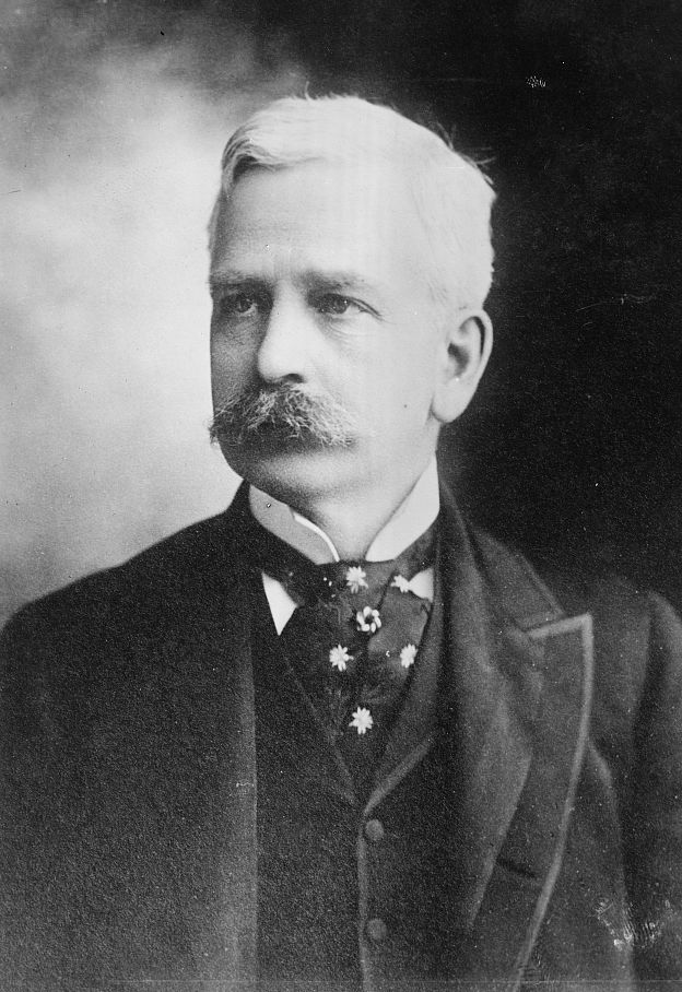 Marshall Field circa 1915